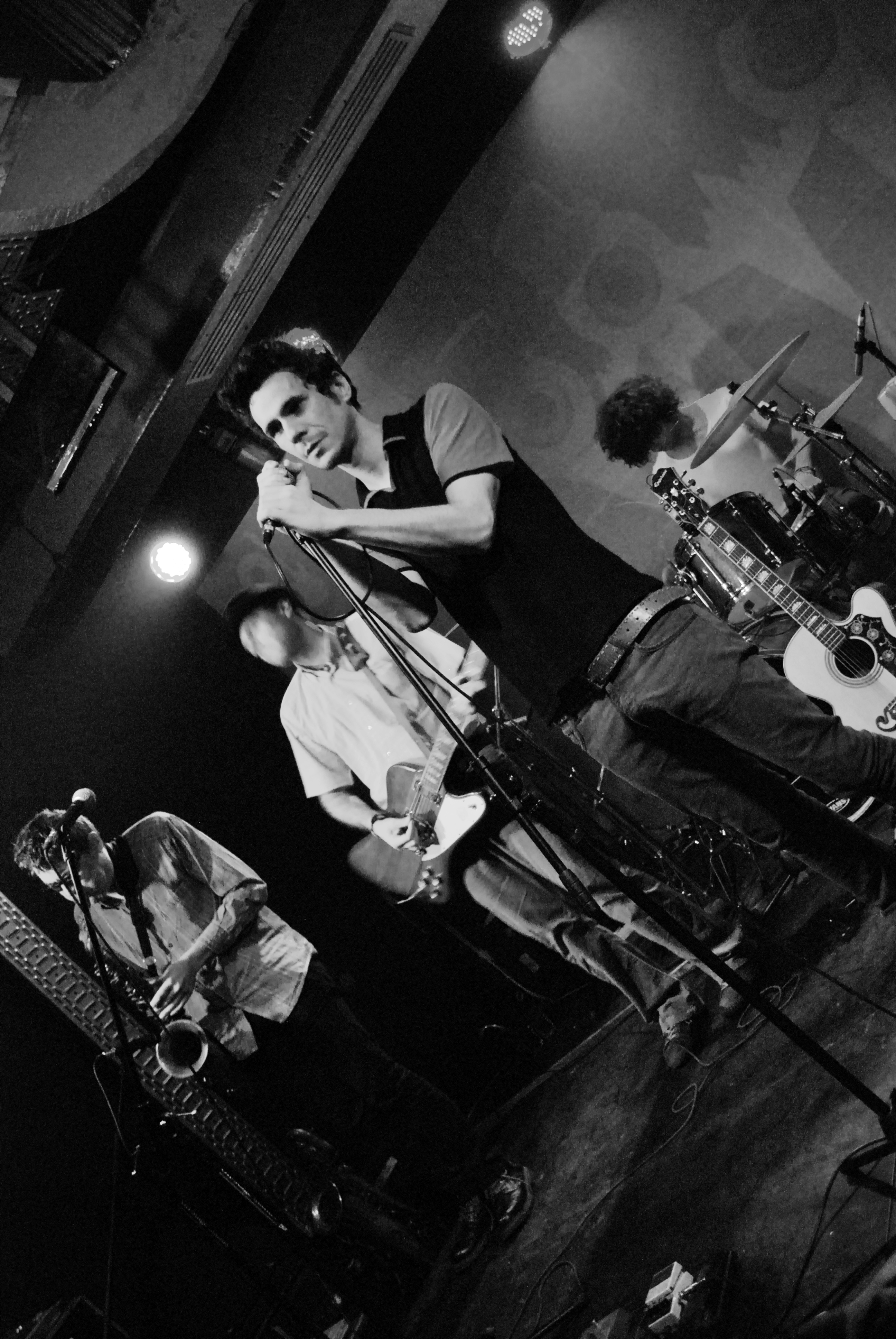 Kumm playing in Control Club, Bucharest.